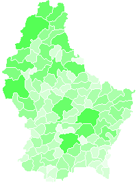 A map of communes of Luxembourg after mergers of 2006-01-01, colour-coded by geographic area. Area is denoted by eight different shades of green; in order of increasingly darker shades, the lower bounds (in km²) are: 0, 10, 15, 20, 25, 30, 35, 50.